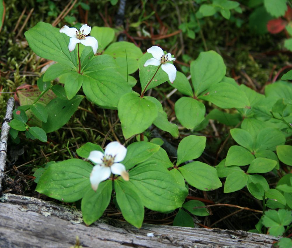 Cornus canadensis, Hartriegelgewächse (Cornaceae) - Kanada/Canada: British Columbia, Sawmill Road ca. 35 km NW Kamloops, ca. 1400-1500 m